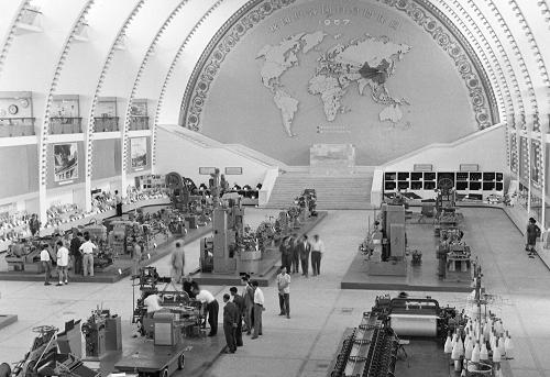 Industry showroom in 1957 Canton Fair 中文（中国大陆）: 1957年广交会工业样品陈列馆